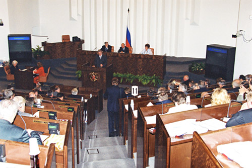 FEDERATION COUNCIL, MOSCOW. A meeting of the heads of the Russian Federation regional legislatures.